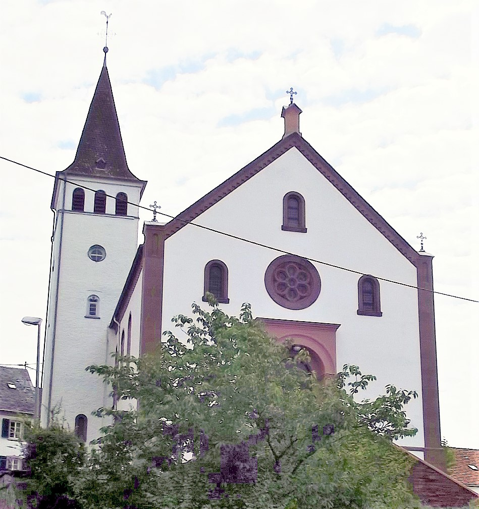 Exterior of the roman catholic church in Faha, Saarland, Germany